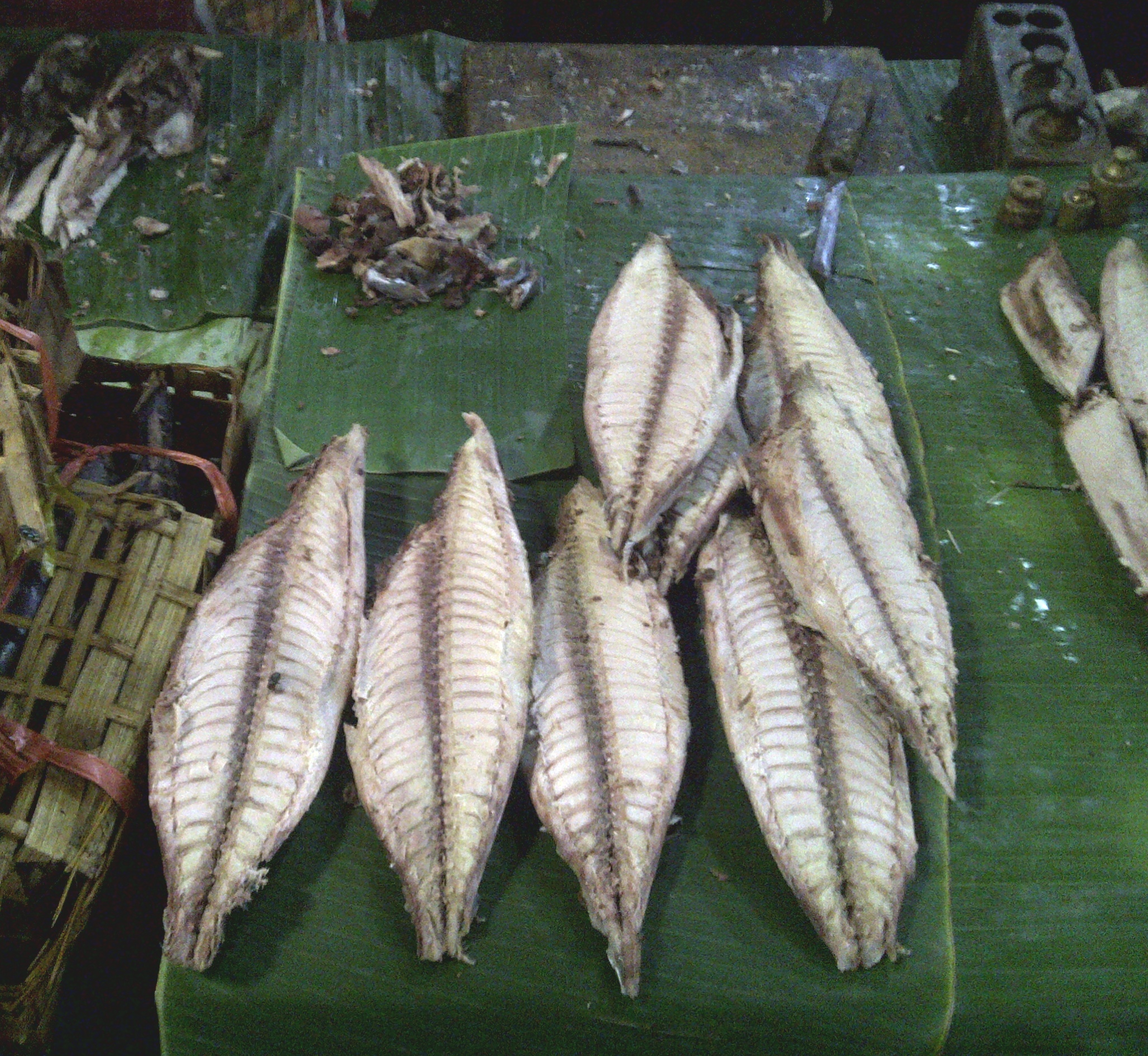 The distribution and marketing of mackerel tuna pindang fishes at Kalibaru, Banyuwangi, East Java, Indonesia